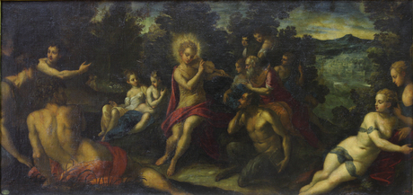 Appolon and Mars